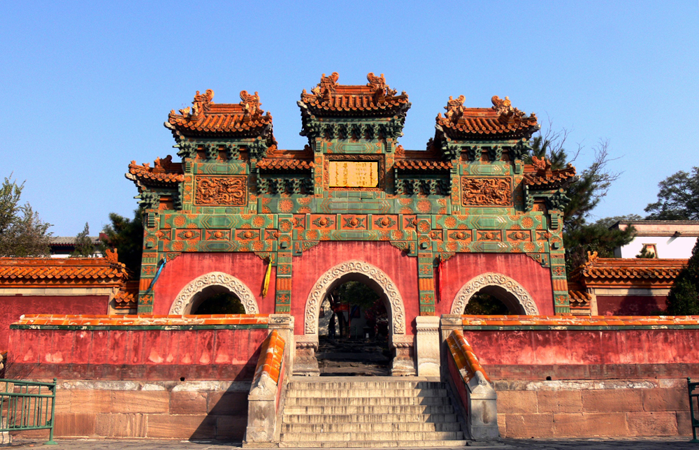 Color glazed gateway of Putuo Zongcheng temple, Chengde.